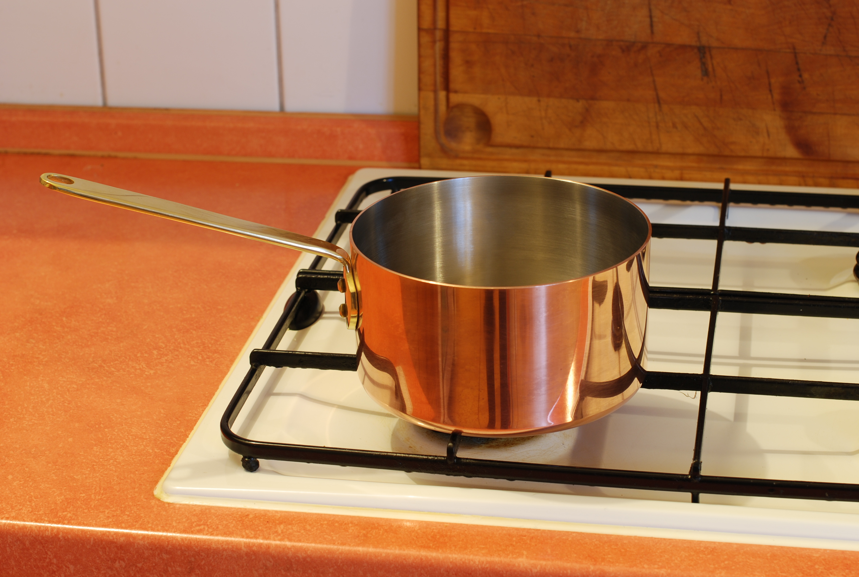 Saucepan made of copper with a diametre of 16 cm.Grip made of bronze, interior is stainless steel. Manufacturer: Krafft’s Koch Kollektion.